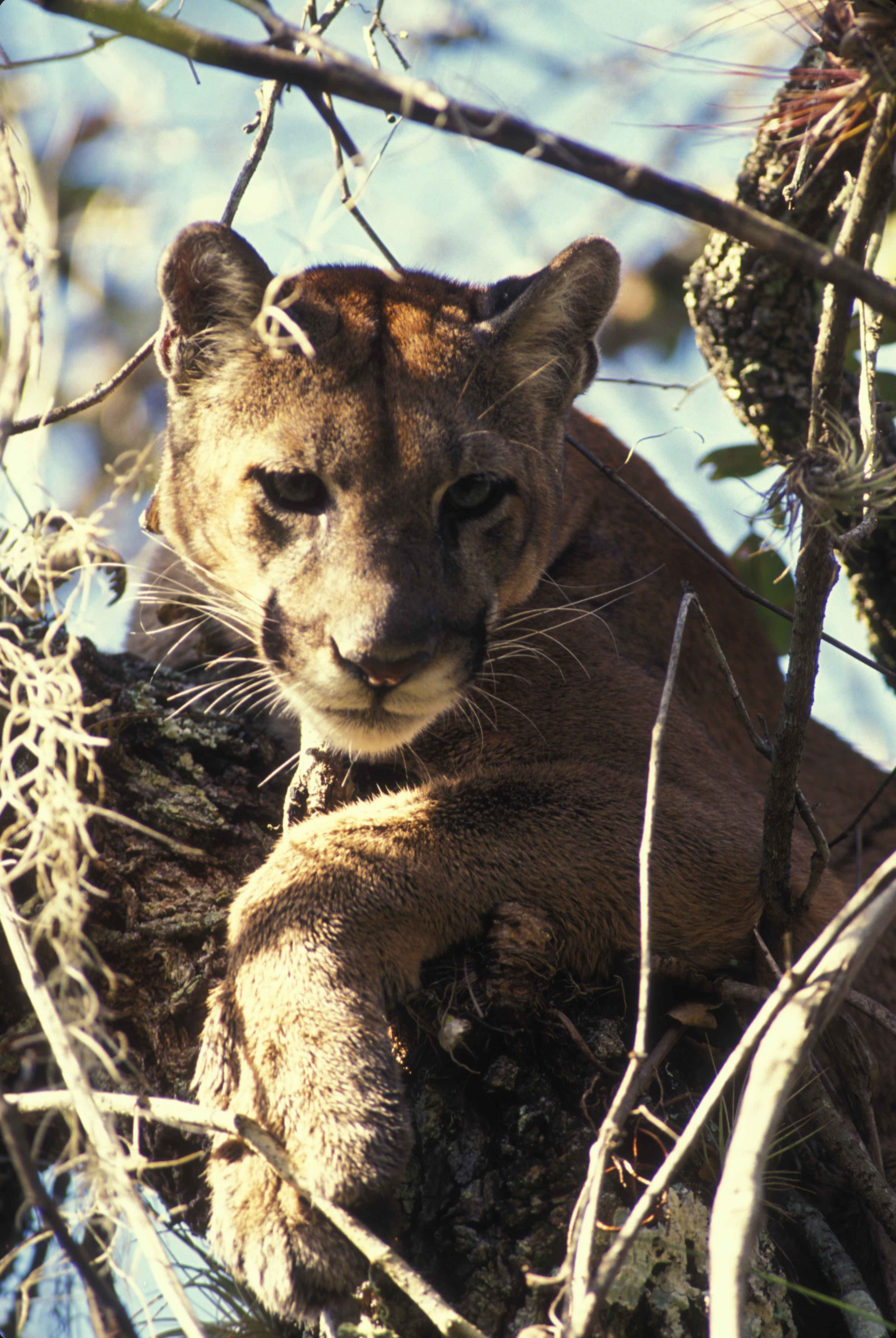 Image title: Panther puma animal puma concolor coryi Image from Public domain images website